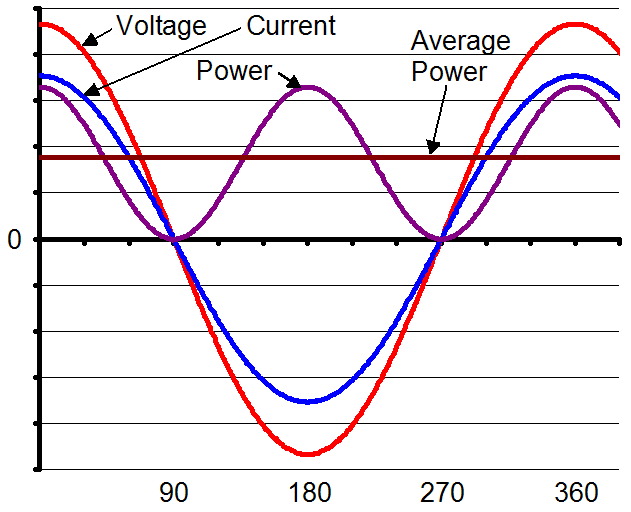 Instantaneous and average power calculated from AC voltage and current with a unity power factor. by C J Cowie using MS Excel, MicroGrafx Designer and Adobe Photoshop Elements